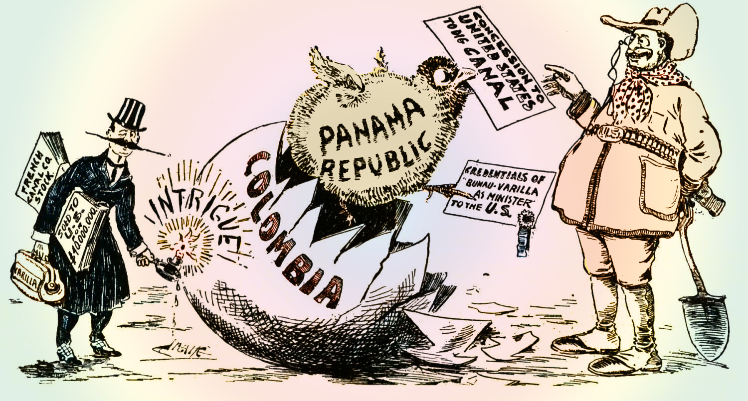 Political Cartoon: The Man Behind The Egg